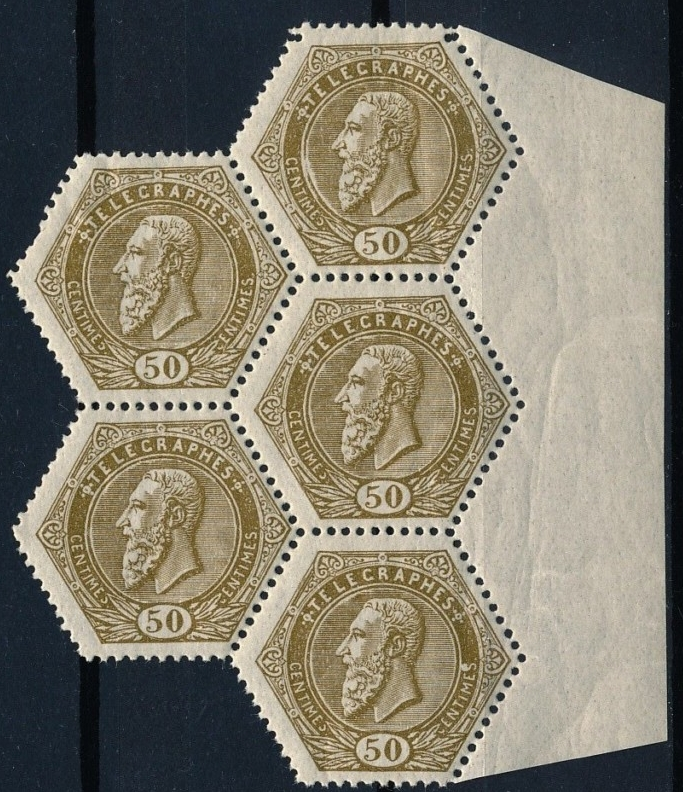 Belgium 1899 50c telegraph stamps.